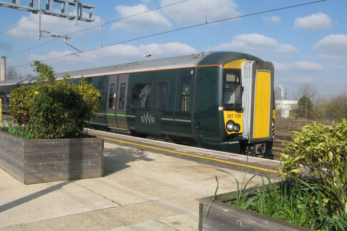 Great Western Railway 'Electrostar' 387159 stands in the winter sunshine at Didcot Parkway, the outer terminus of the electric suburban service from London Paddington.